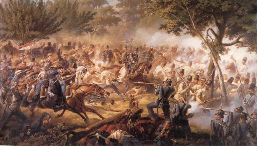 The 2nd Hussars charge at the Battle of Solferino. The 2nd Hussars, under the command of Colonel l'Huillier, charged at Solferino to rescue a French infantry division which was under great pressure. The hussars bought time for their comrades to regroup.